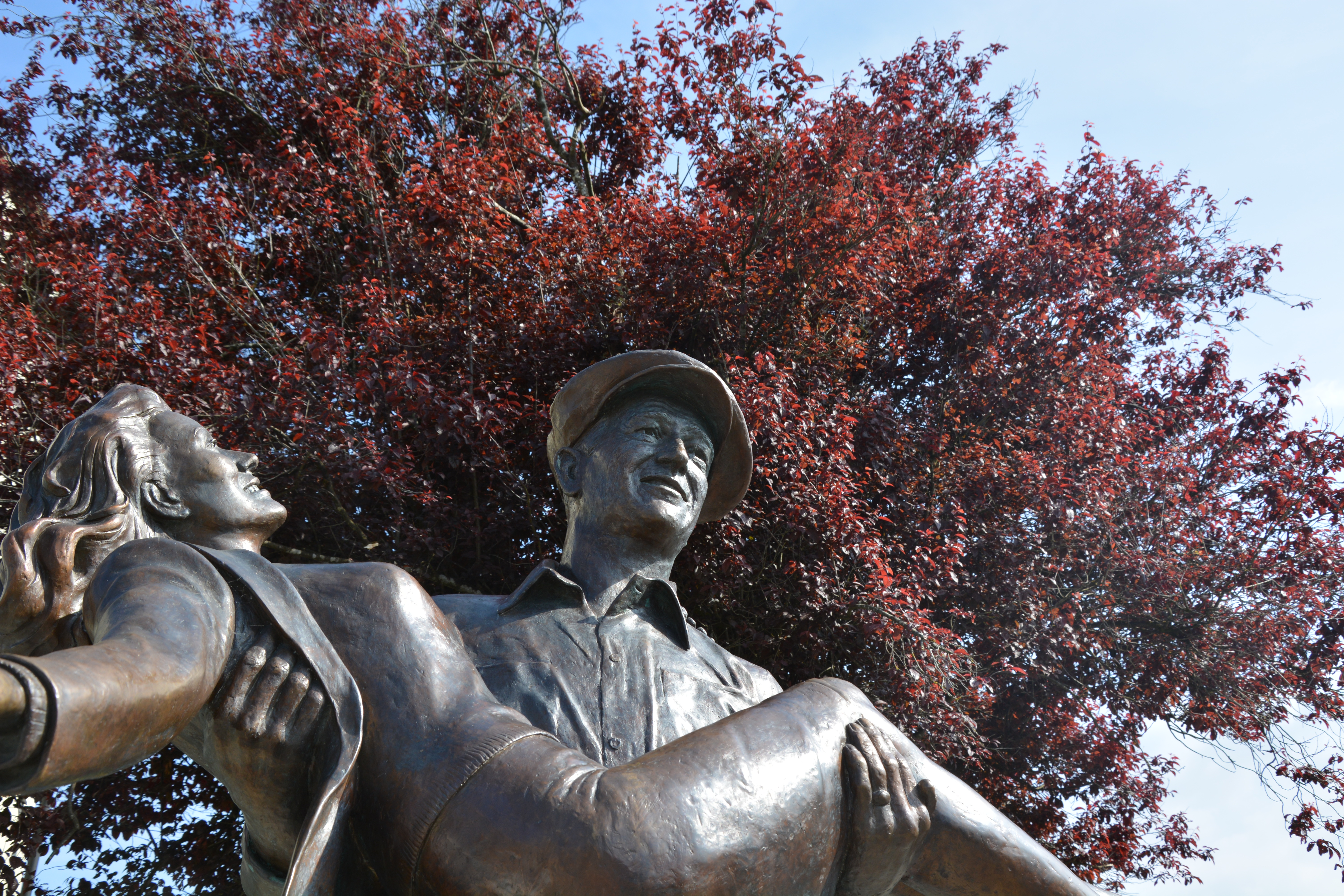 Statue of "The quiet Man" in Cong, Ireland